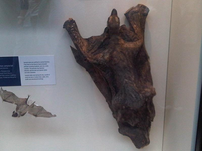 Taxidermied Common Vampire Bat (Desmodus rotundus) and Philippine Flying Lemur (Cynocephalus volans) at the Natural History Museum in London, England.